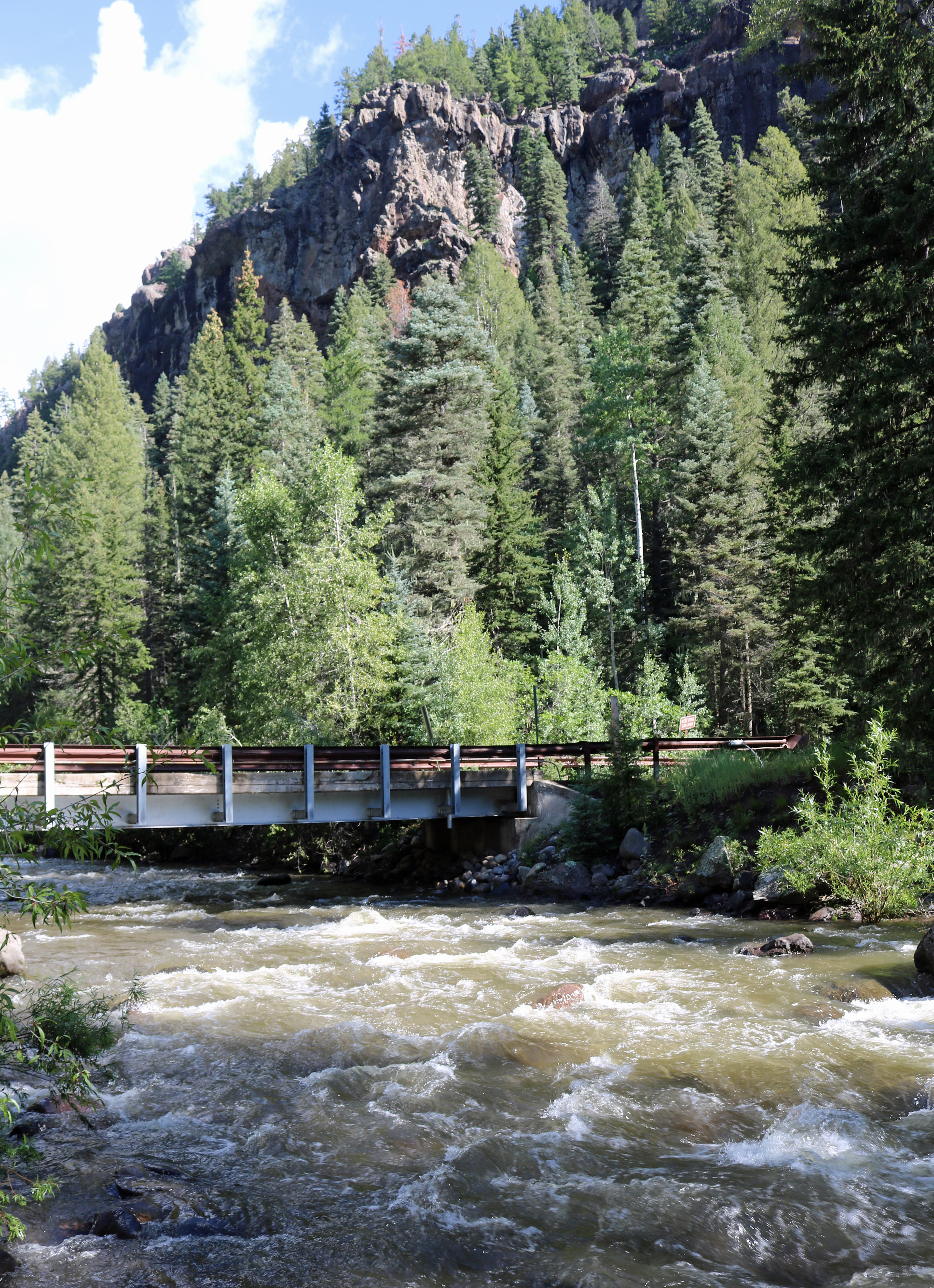 The West Fork San Juan River. The bridge carries Forest Road 648 (West Fork Road) on the west side of Wolf Creek Pass near the West Fork Campground.